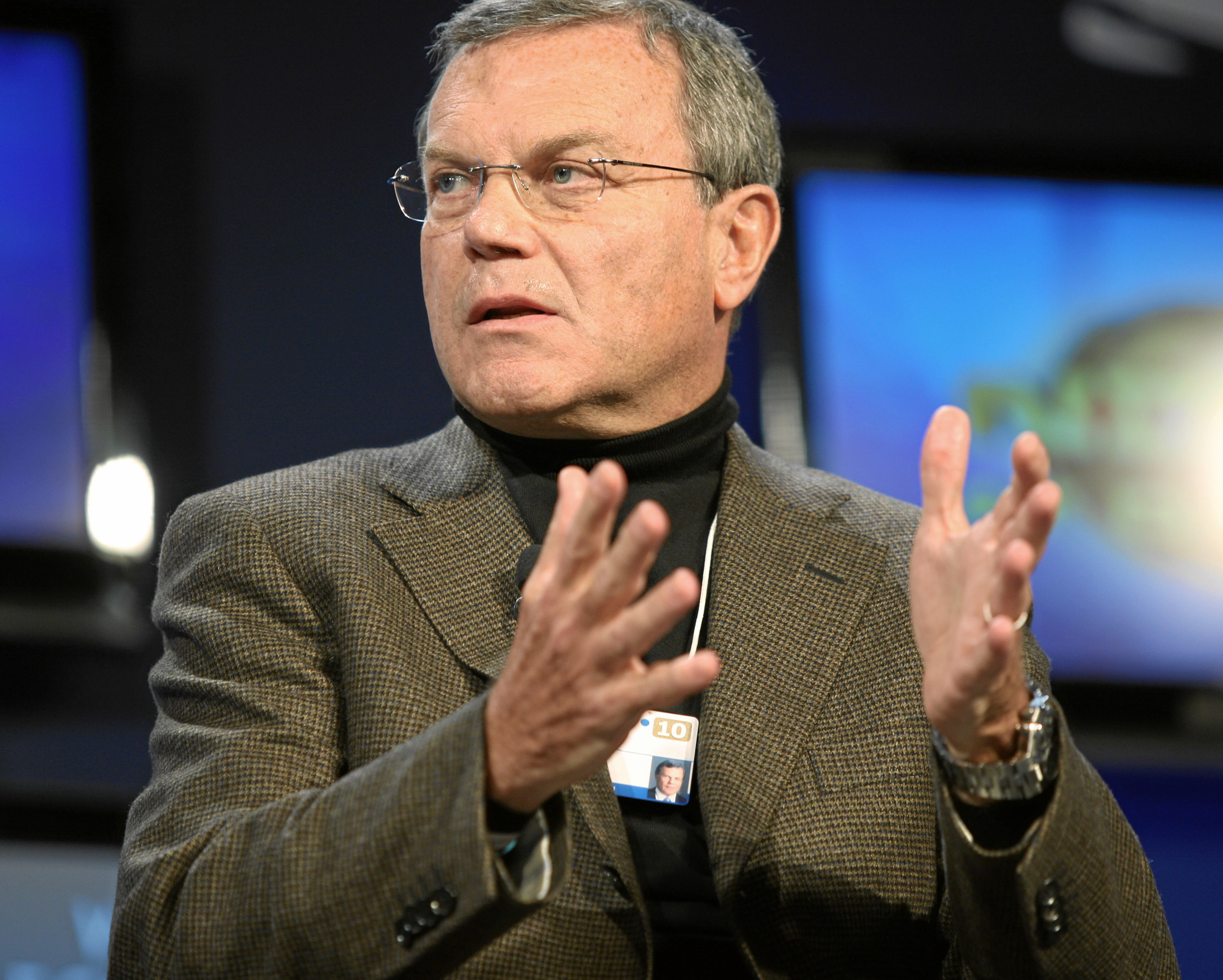 DAVOS/SWITZERLAND, 28JAN10 - Martin Sorrell captured during the session 'Will India Meet Global Expectations?' at the Congress Centre at the Annual Meeting 2010 of the World Economic Forum in Davos, Switzerland, January 28, 2010. Copyright by World Economic Forum by Sebastian Derungs